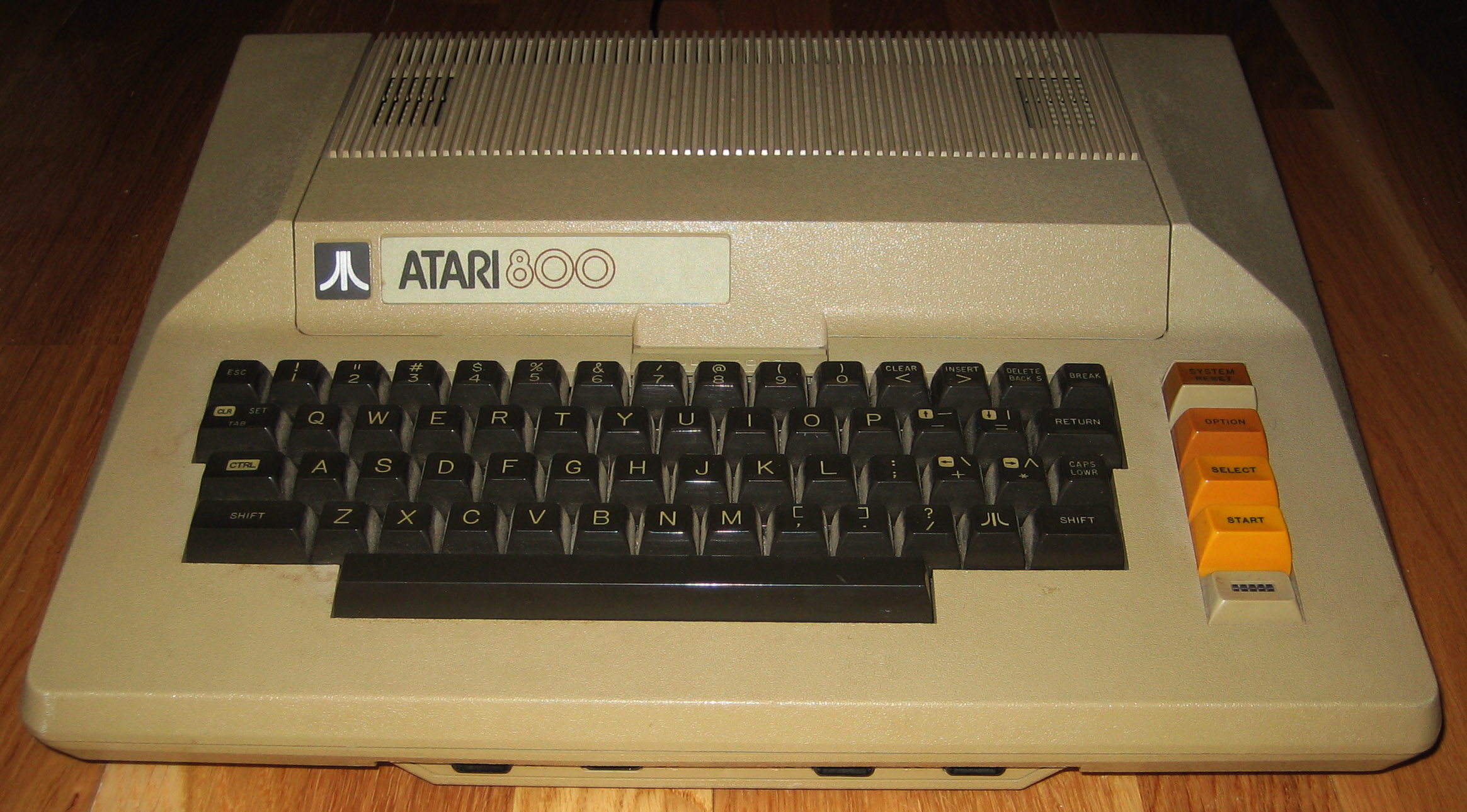 The Atari 800 home computer. Cartridge lid closed. Photo by the uploader 081227.